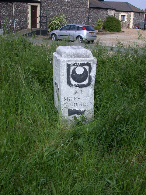 Milestone XI miles to Cambridge. One of William Warren's historic stones, dated MDCCXXXI. It stands in front of 832323